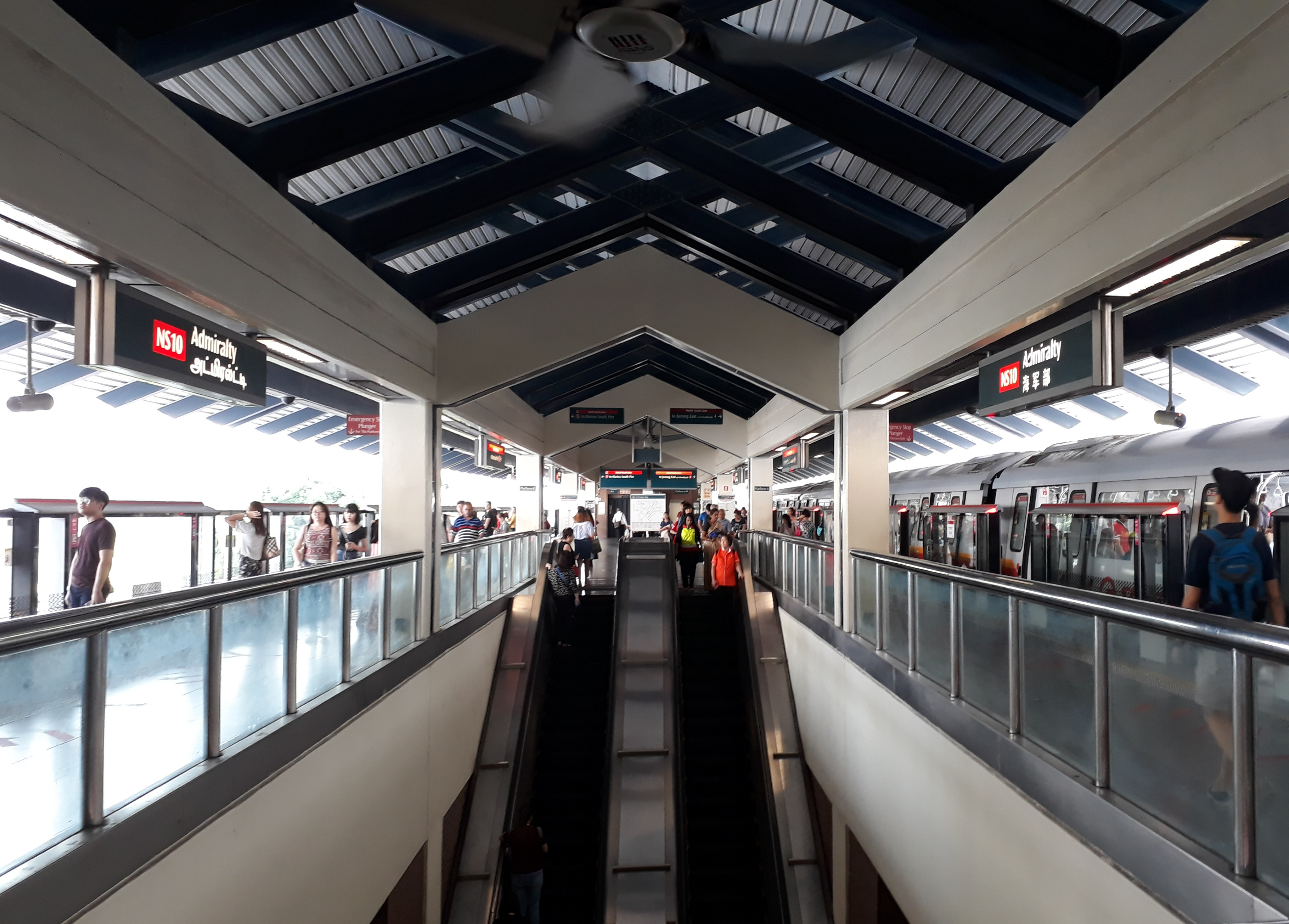 Admiralty MRT Platform